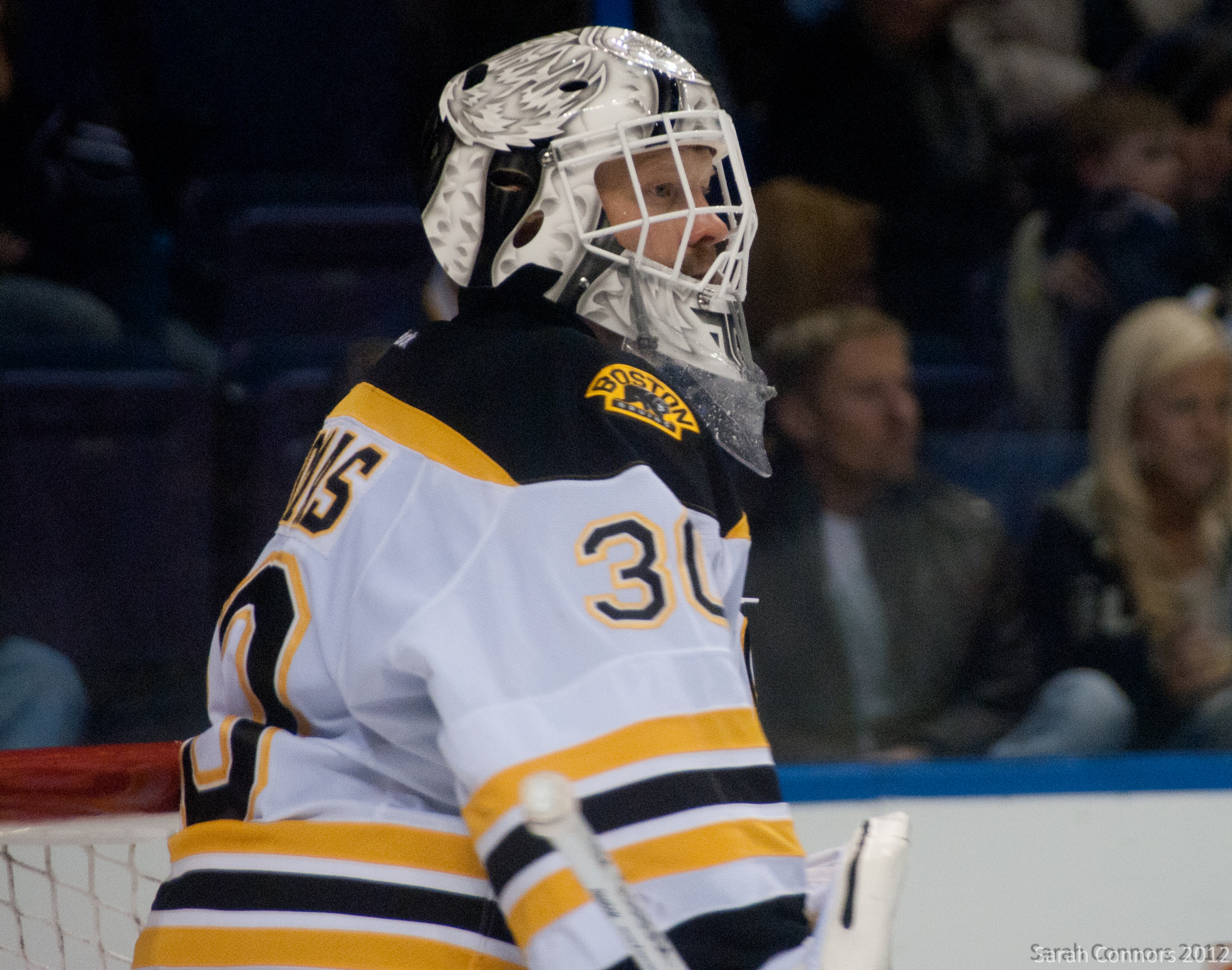 Tim Thomas Boston Bruins vs. St. Louis Blues in National Hockey League action. Bruins win! Glass seats! Everything is happening! Photo taken by Sarah Connors on February 22, 2012 at Downtown West, St. Louis, MO, USA with a Nikon D200.